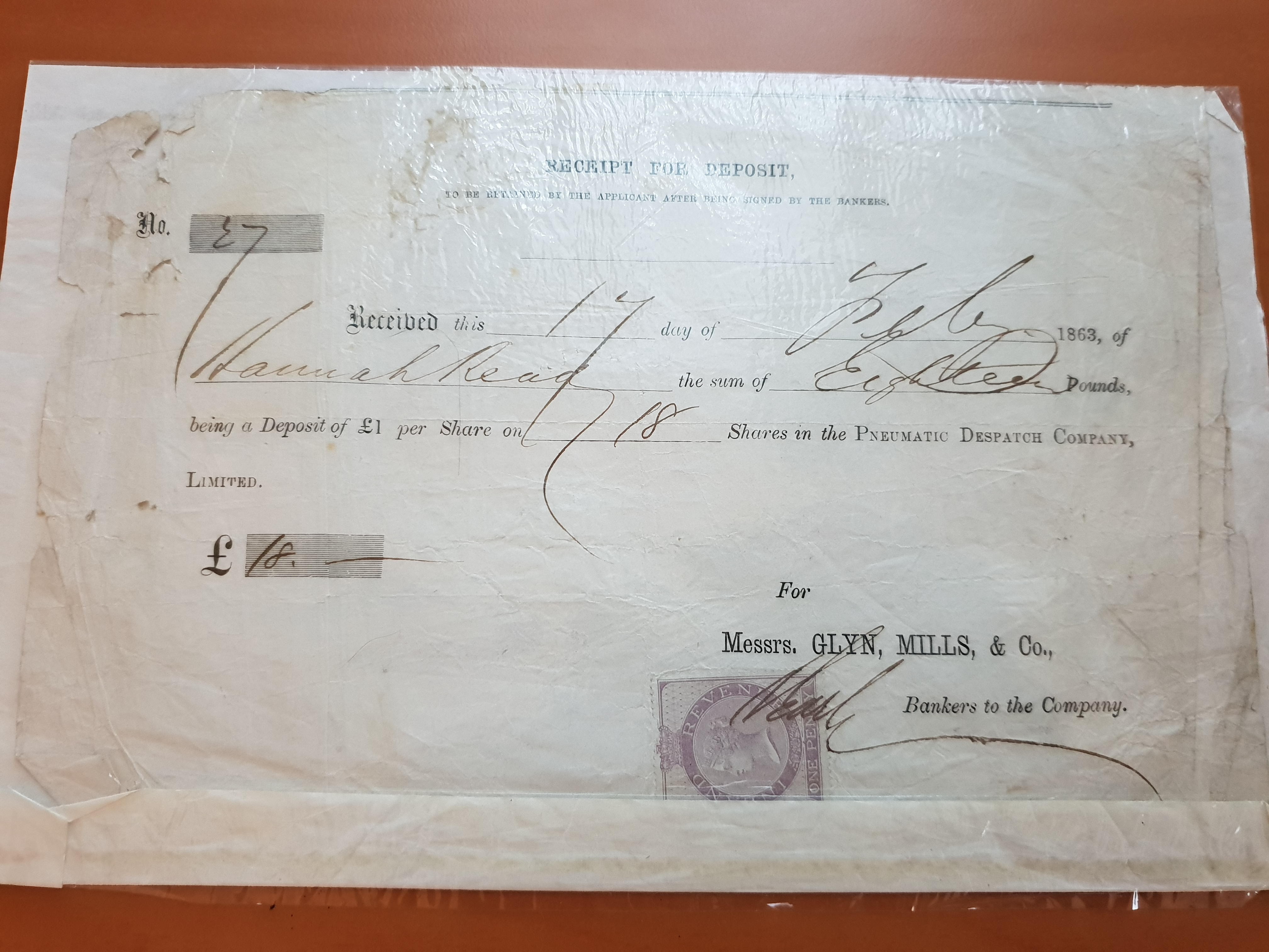 A receipt for the purchase of 18 shares at £1 each in July 1863